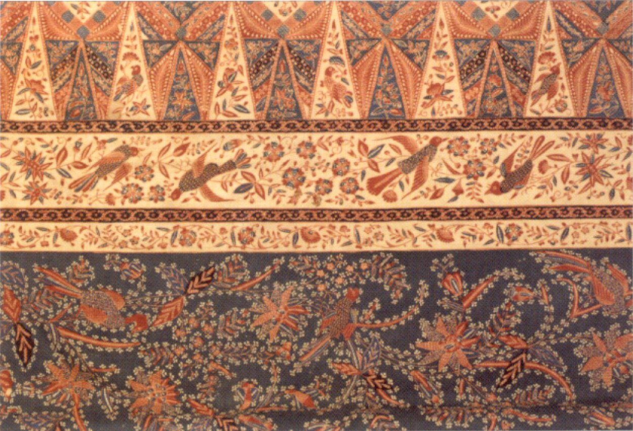 Indonesian sarong from Java, c. 1880, Honolulu Academy of ArtsBahasa Indonesia: Sarung dari Jawa, sekitar 1880an, Honolulu Academy of Arts